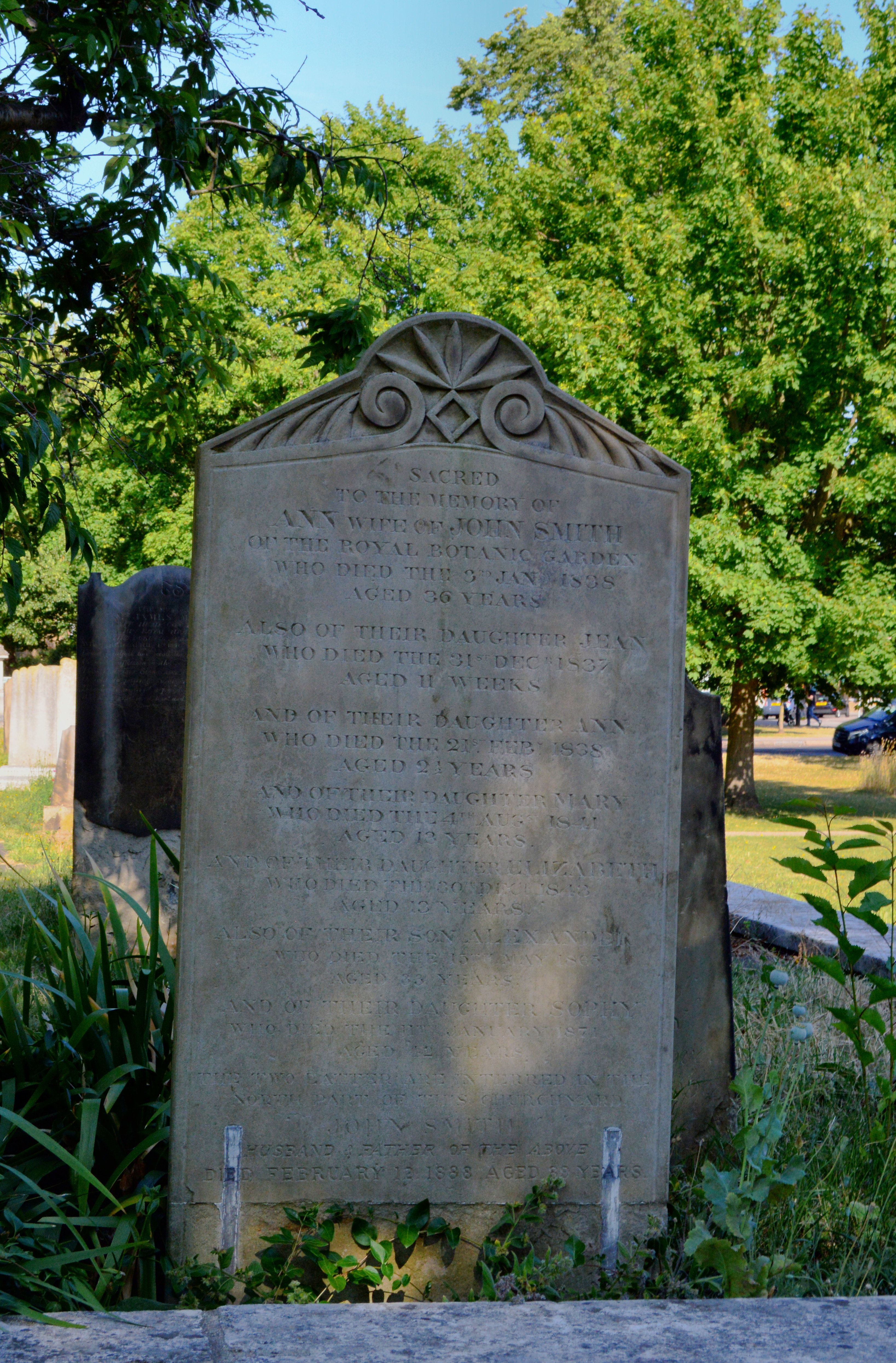 St Anne's Church, Kew, John Smith and family headstone. John Smith (1798–1888) was an English botanist who was the first curator at Royal Botanic Gardens, Kew